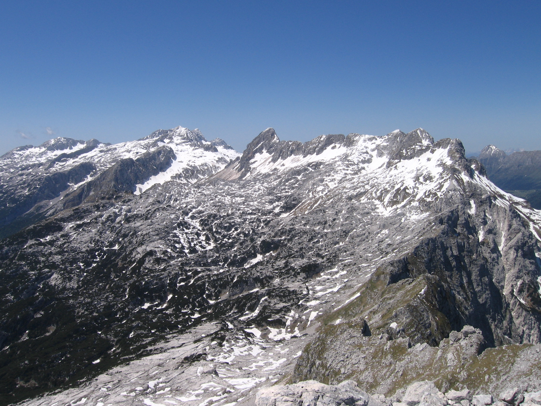 Kanin mountain chain above Bovec basin from Rombon, Slovenia